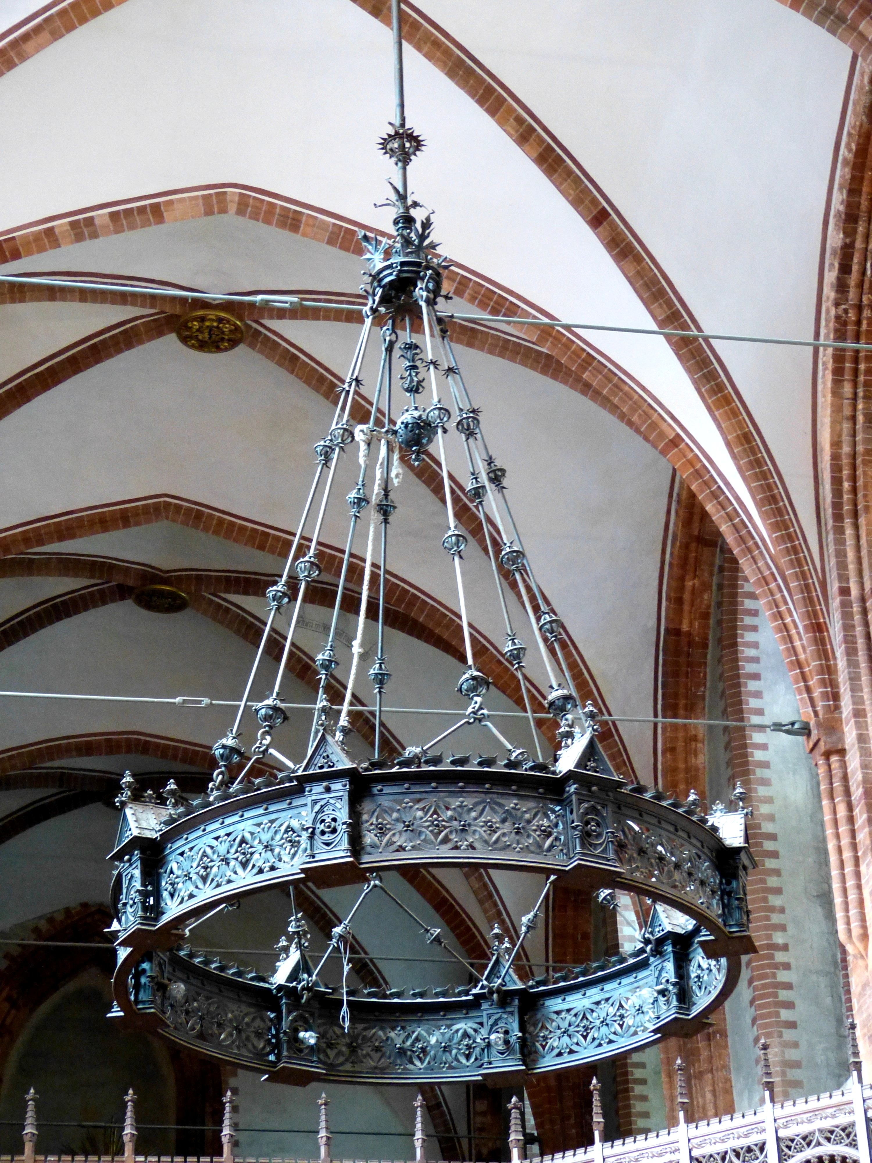 Dobbertin ( Mecklenburg ). Monastery church: Church chandelier ( 1885 )